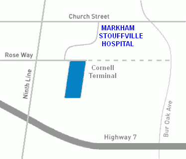 Cornell Terminal location map